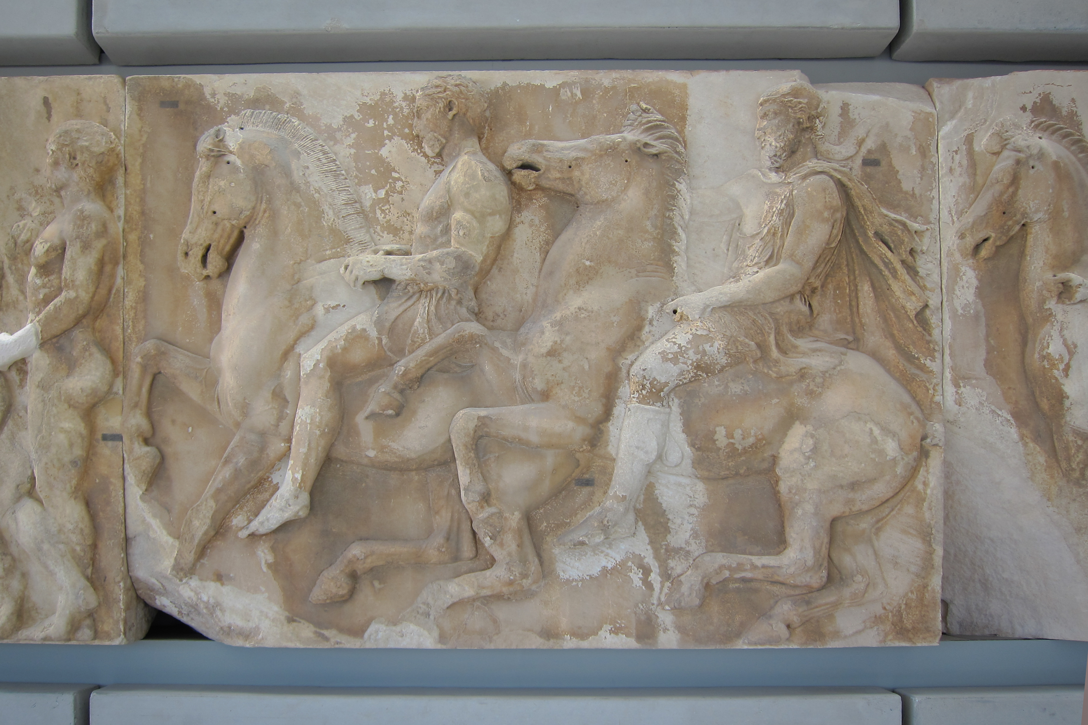 Parthenon Frieze, Acropolis Museum, Athens, Greece